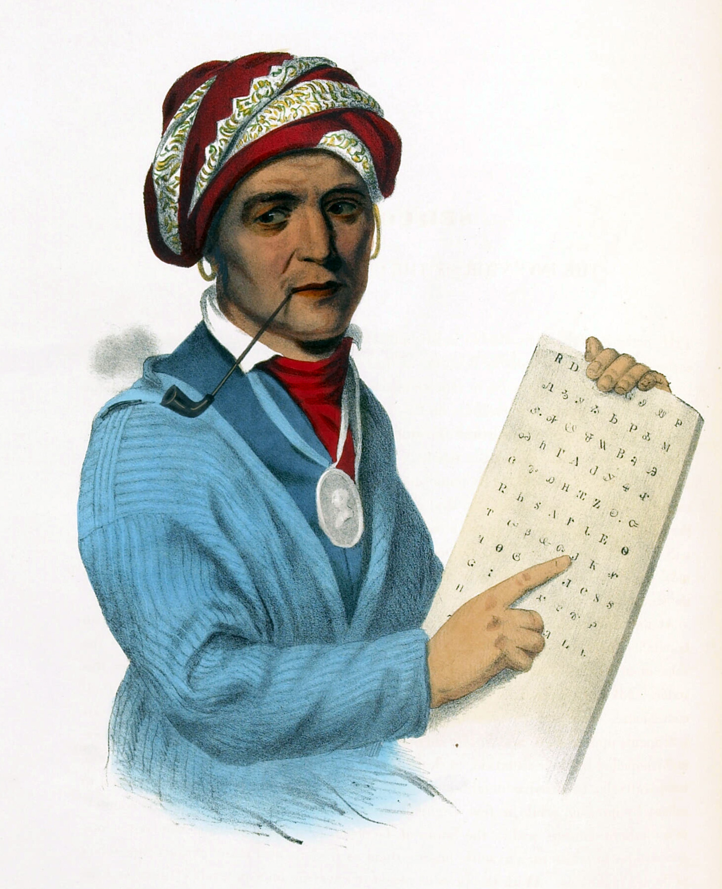 Sequoyah with a tablet depicting his writing system for the Cherokee language. 19th-century print of a painting.